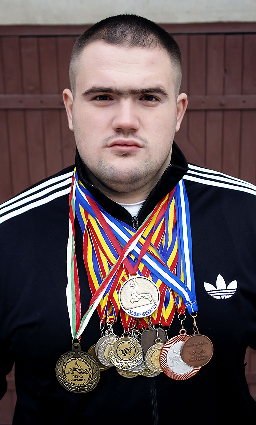 Photo of Gheorghe Ignat, Romanian Greco-Roman Wrestling Champion.